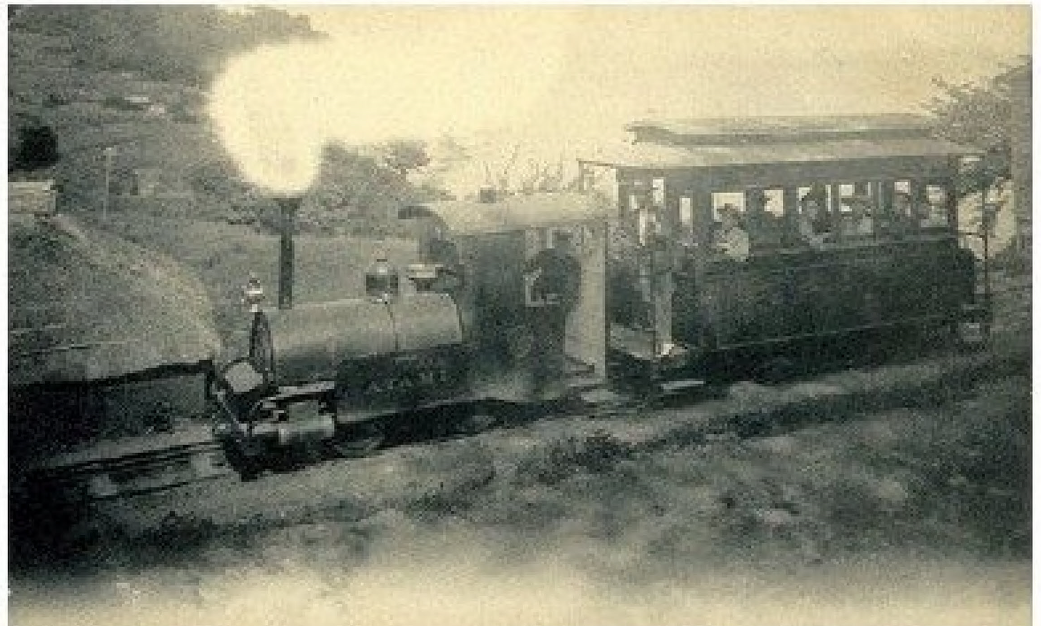 Atami Tetsudo steam locomotive No 1 after re-gauging in 1907